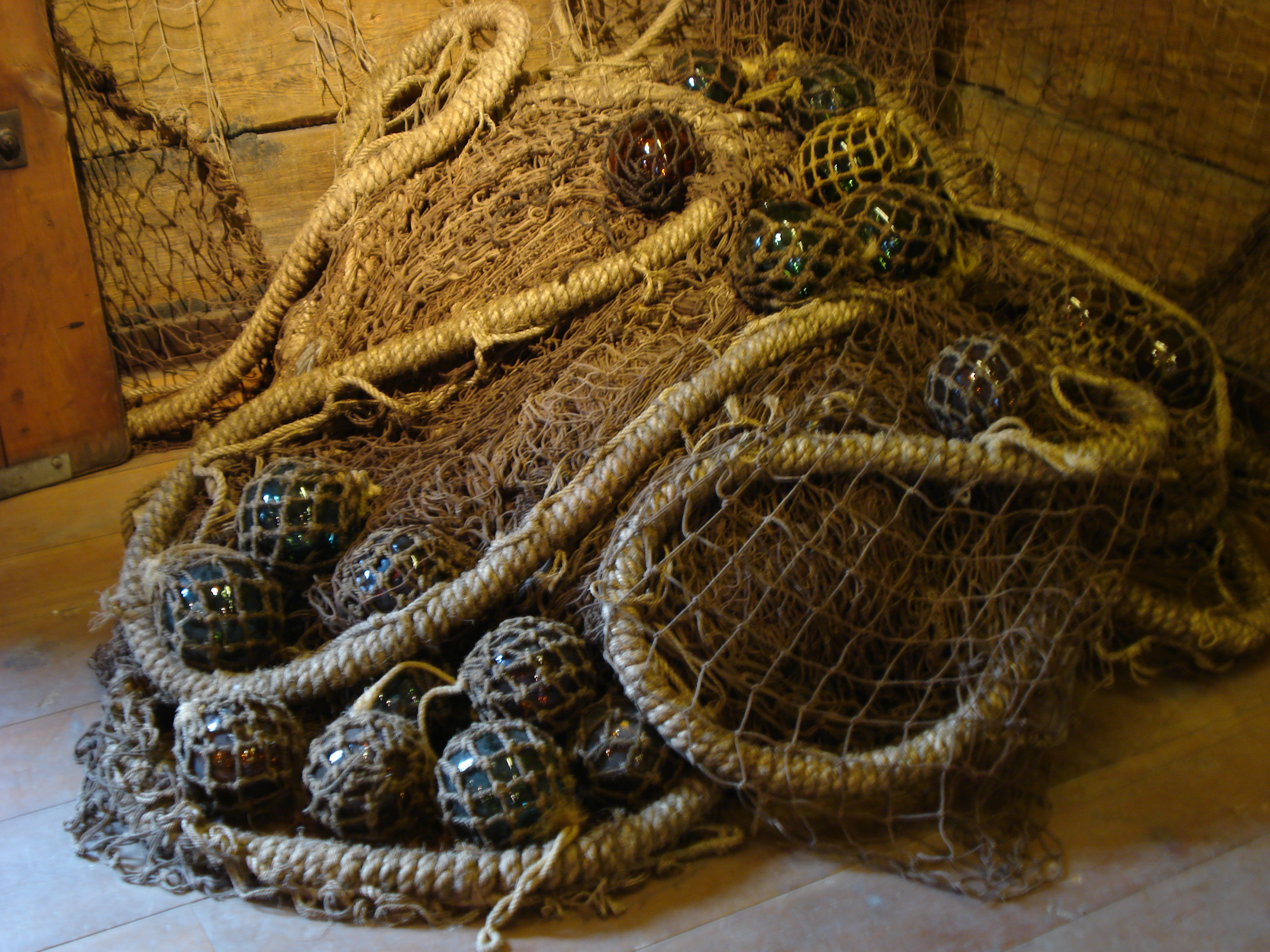 Trawler Fishing (Fishing net with float), Ísafjörður, Iceland